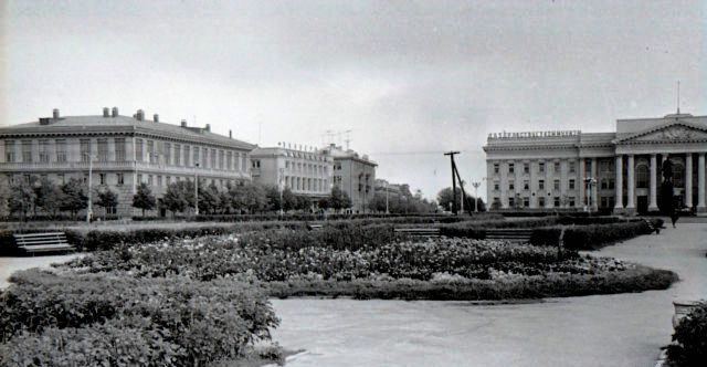 Central Square (former Lenin's Square), Musical school, Shop Sam, Public Polytechnic College in Maladzechna, Belarus